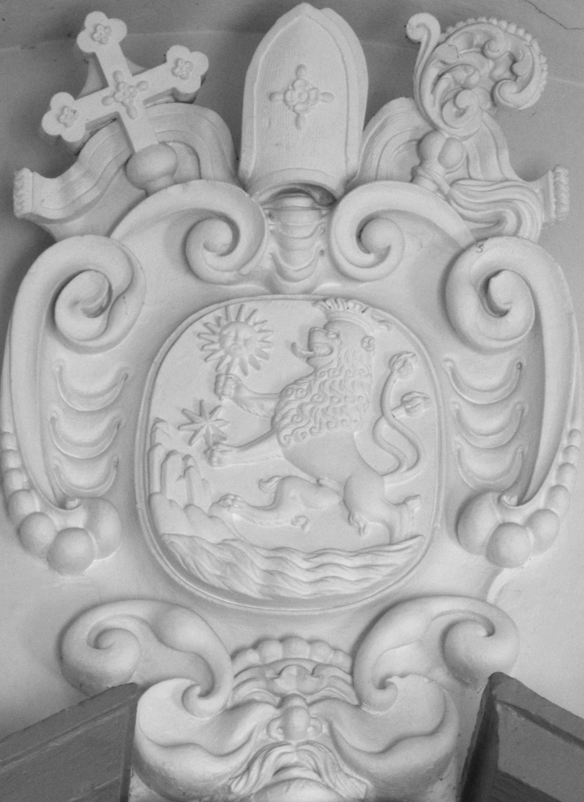 Coat of arms of György / Juraj Szelepcsényi, bishop of Pésc, Hungary (1642), bishop of Eger, Hungary (1644), bishop of Veszprém, Hungary (1644 - 1648), bishop of Nitra, Slovakia (1648 - 1666), archbishop of Kalocsa, Hungary (1657 - 1666), archbishop of Esztergom, Hungary (1666 - 1685). Inner portal of the church in Komárov, Podunajské Biskupice, Bratislava. Inscription at the portal: "A. M. D. G. & HONOREM S. JOSEPHI // NOVITER ERECTA EST HAEC ECCLESIOLA. // PER CELSIS. & RN. DIS. PRINCIP. D. D. GEOR. // SZELEPCHE. NY ARCHIEPPV. // STRIGON. A D. 1681".